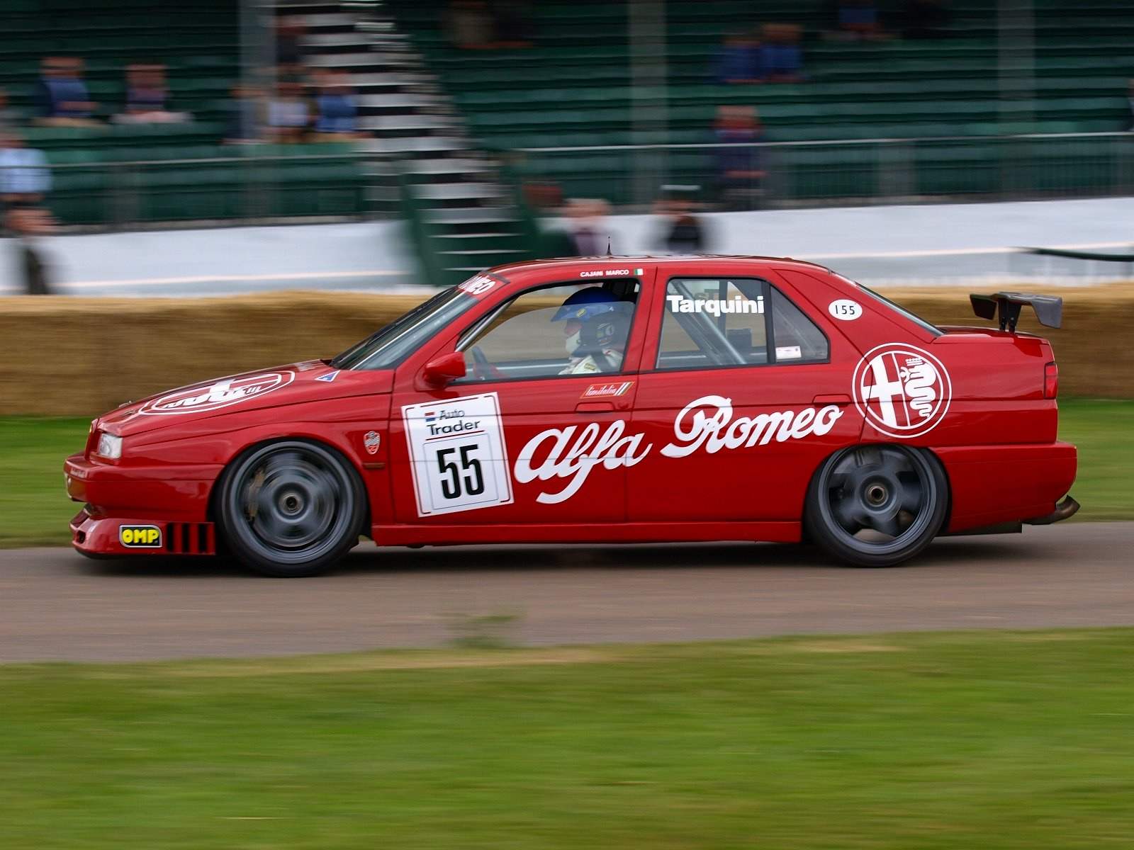 Alfa 155 2.0 TS (Gabriele Tarquini, 1994 British Touring Car Championship)